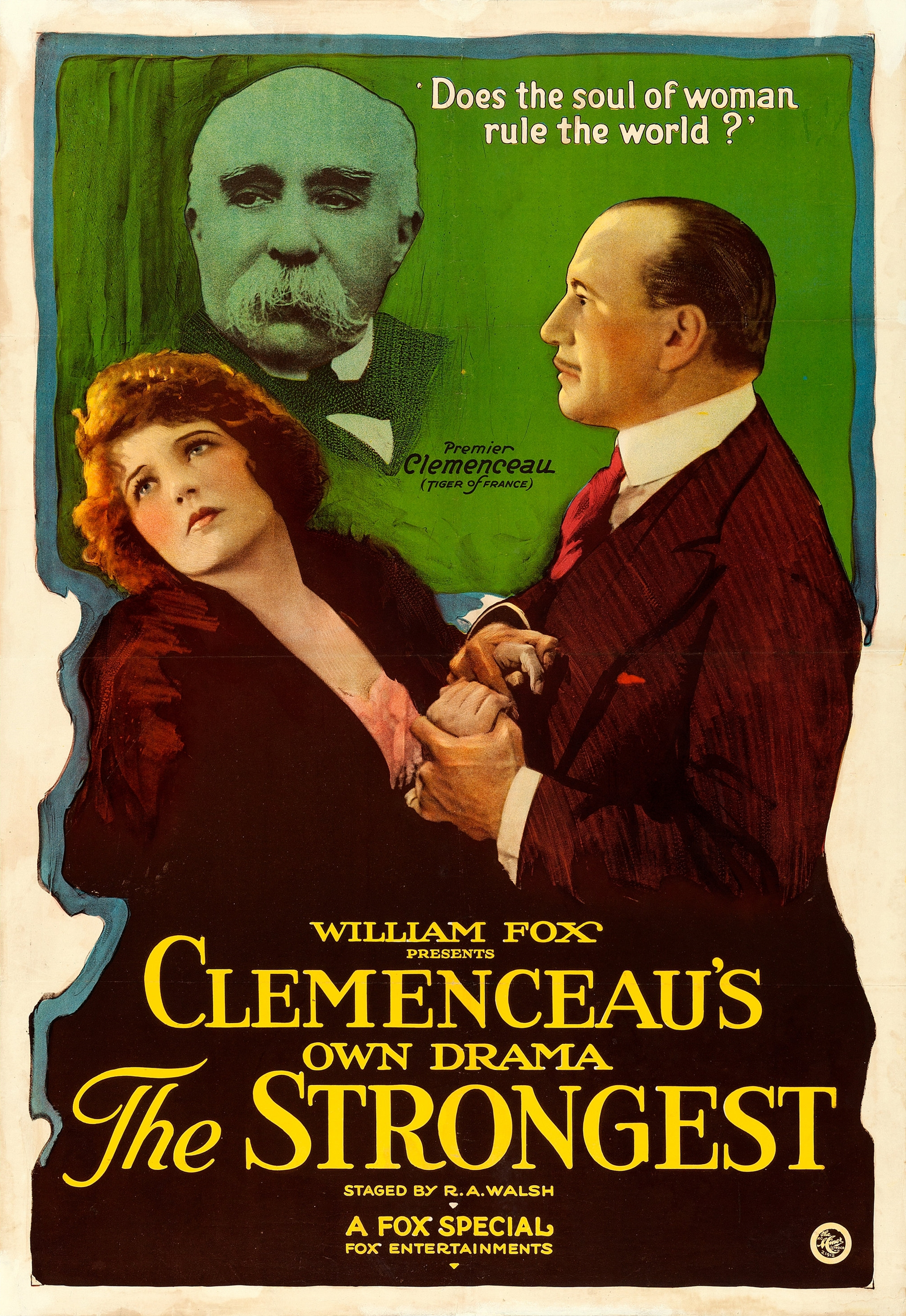 This is a poster for the 1920 American silent drama film The Strongest.